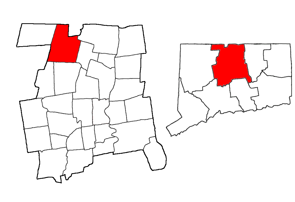 image edited from this following wiki page